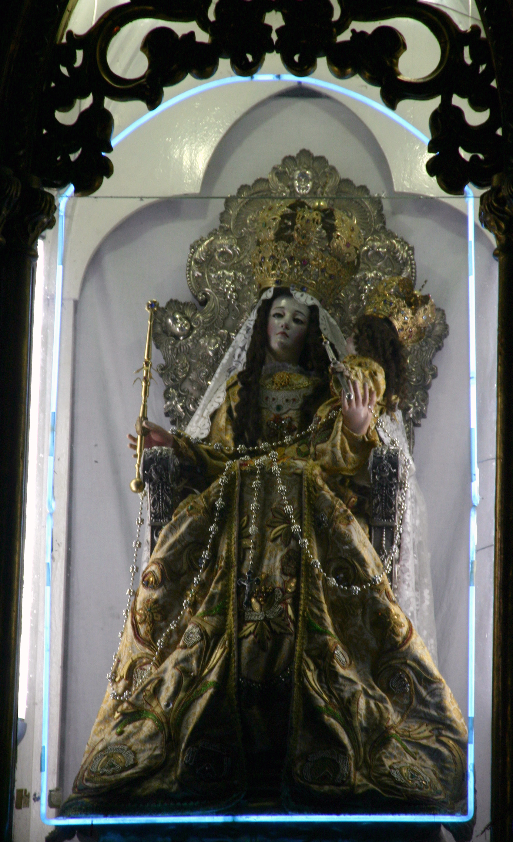 Nuestra Señora del Rosario de Agua Santa (Our Lady of the Rosary of the Holy Water), patron of Baños de Agua Santa, on the altar in the church of Baños de Agua Santa, Ecuador. January 2010.